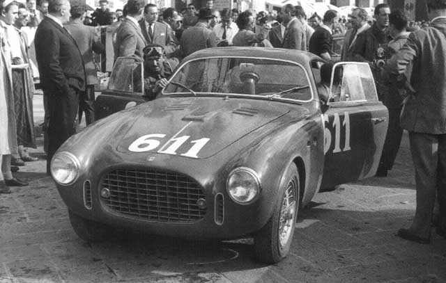 Entry #611 and WINNER of Mille Miglia on 3–4 May 1952 was this 1952 Ferrari 250 S Vignale Berlinetta s/n 0156ET, driven by Giovanni Bracco and Alfonso Rolfo.[1] Not sure if they are in the picture. Bracco was driving by himself, not part of the Ferrari works team, but still won.[2]